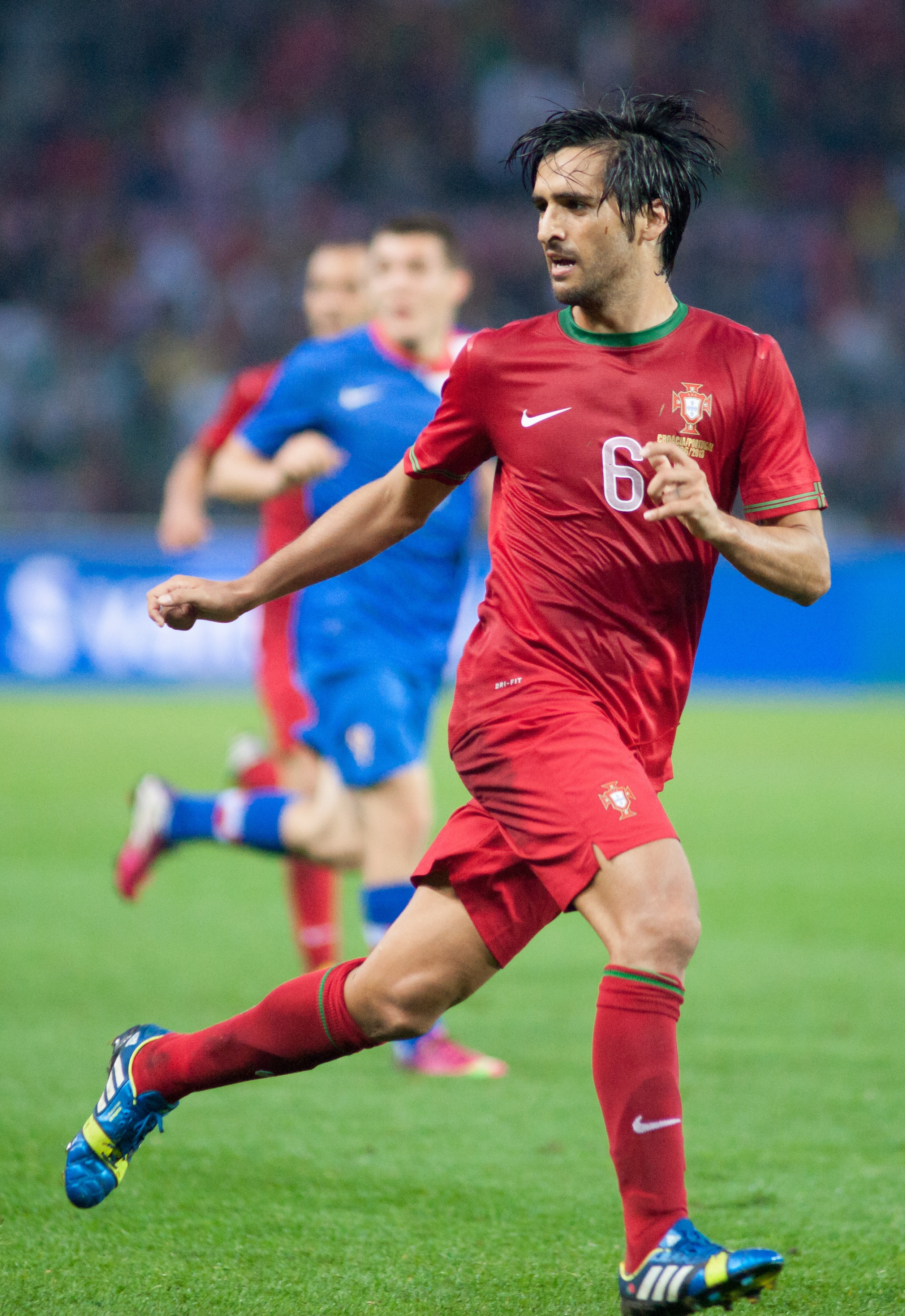 Custódio Miguel Dias de Castro - Croatia vs. Portugal, 10th June 2013